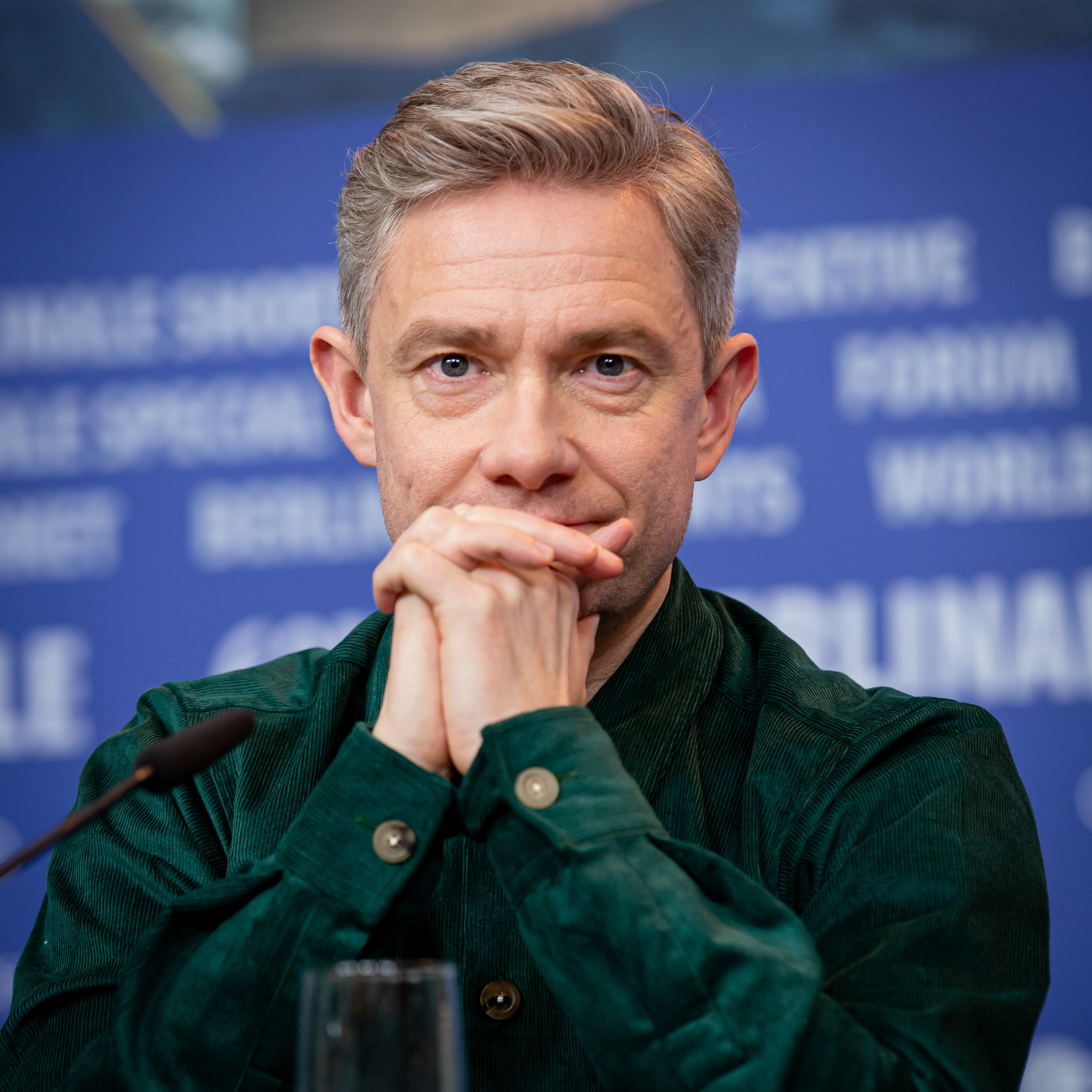 Actor Martin Freeman at the Berlinale 2019